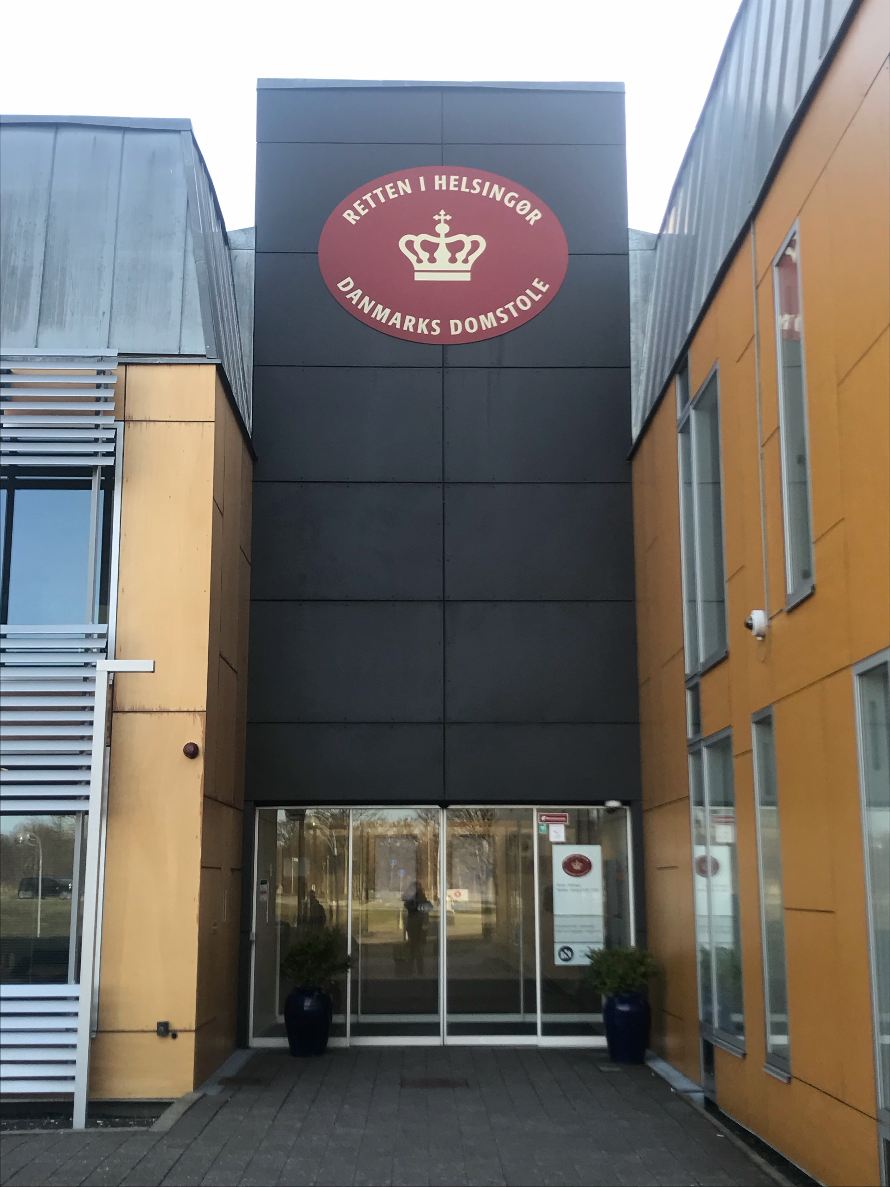 Entrance to the City Court of Helsingør